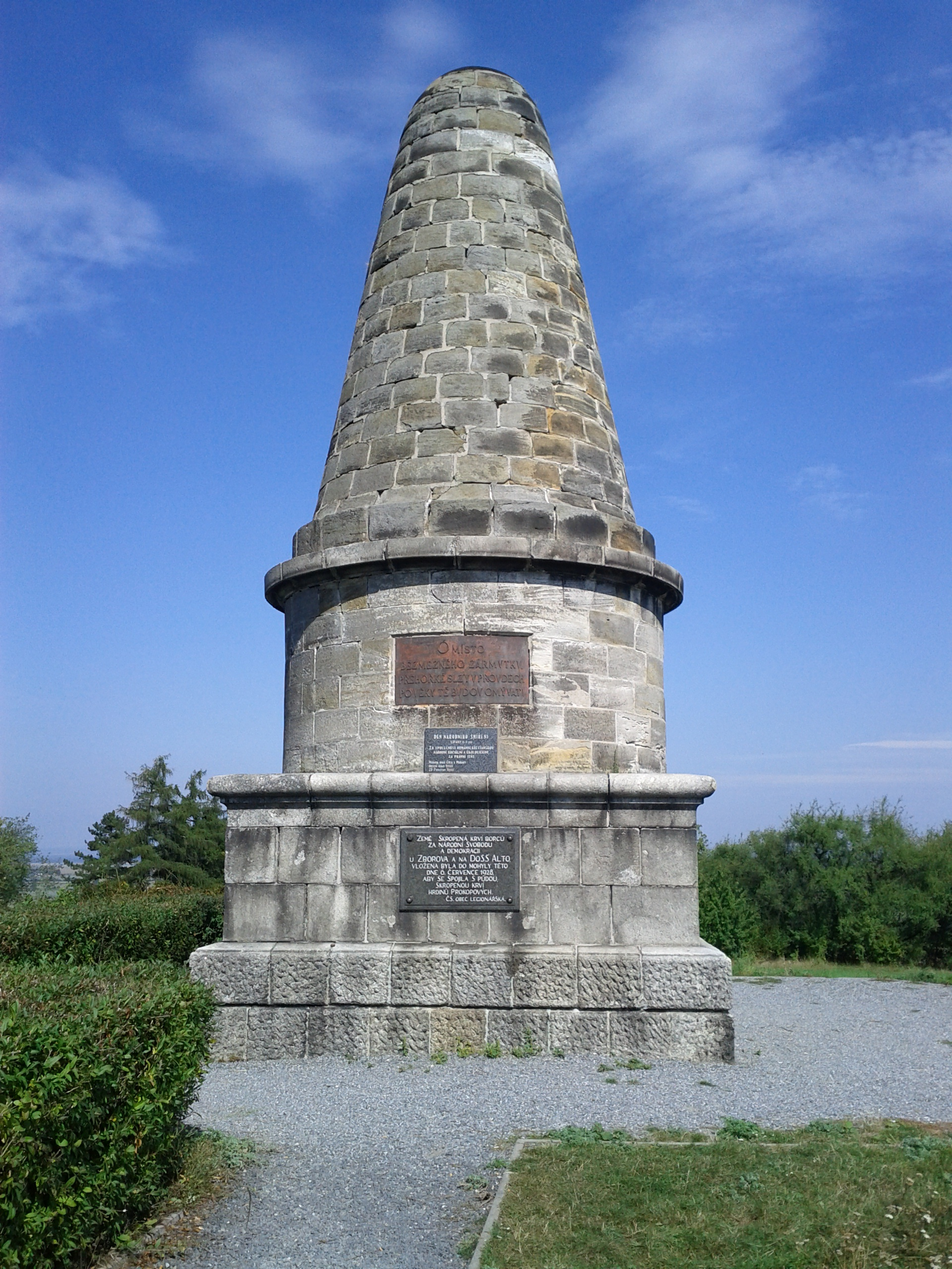 Memorial of the Battle of Lipany on the hill above Lipany